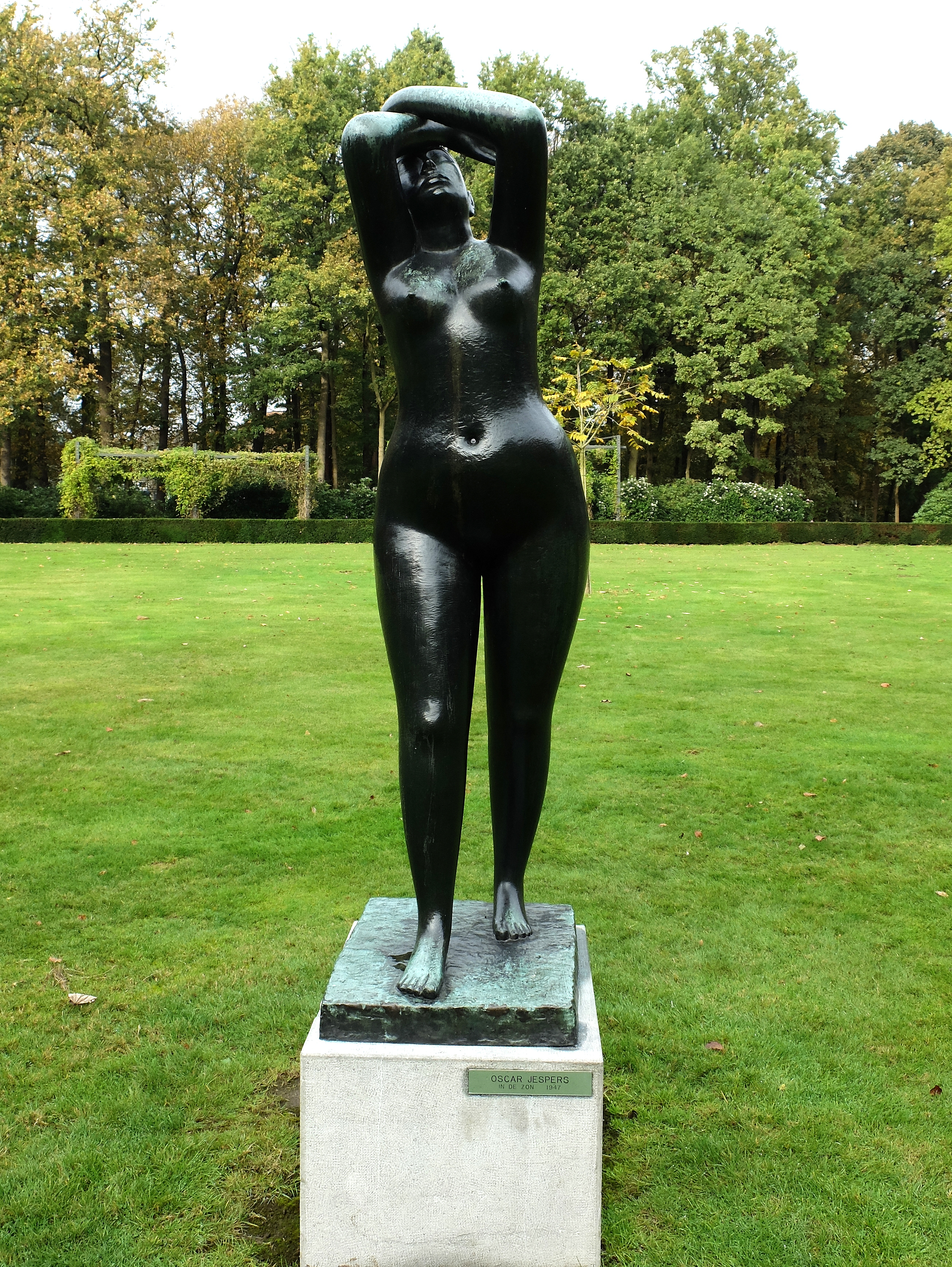 Oscar Jespers In the sun 1947